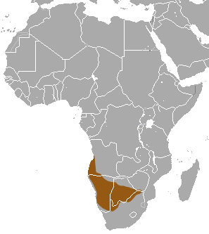 Bushveld Elephant Shrew (Elephantulus intufi) range